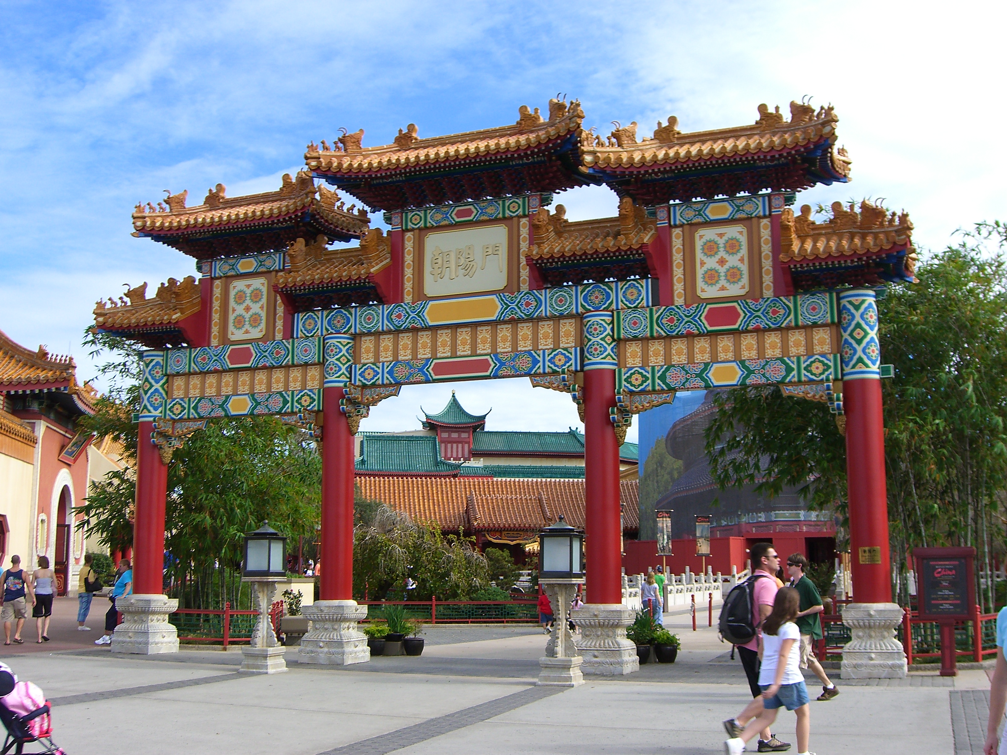 Chinese gate at the entrance to the China pavillion at Epcot.